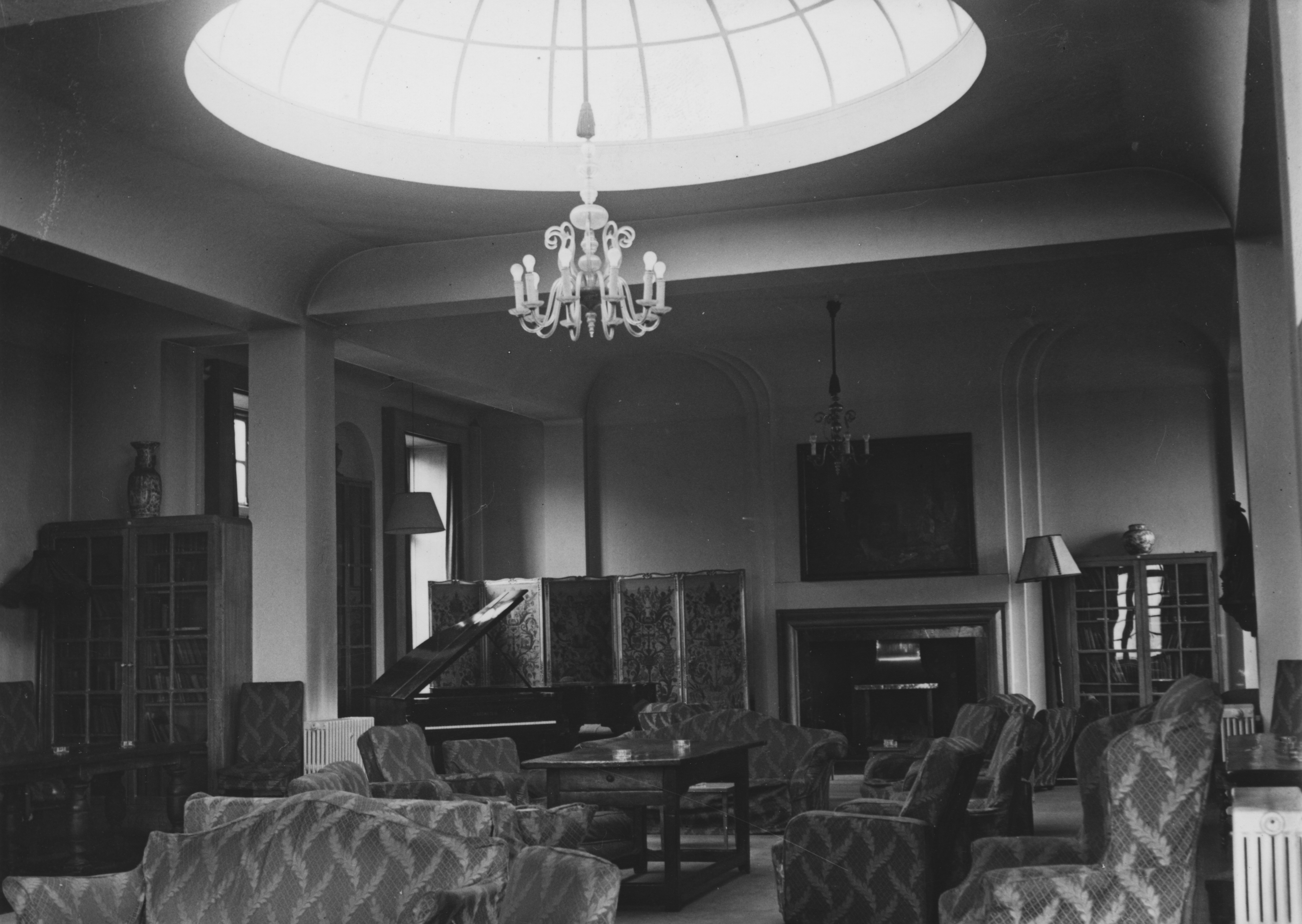 IMAGELIBRARY/28 Persistent URL